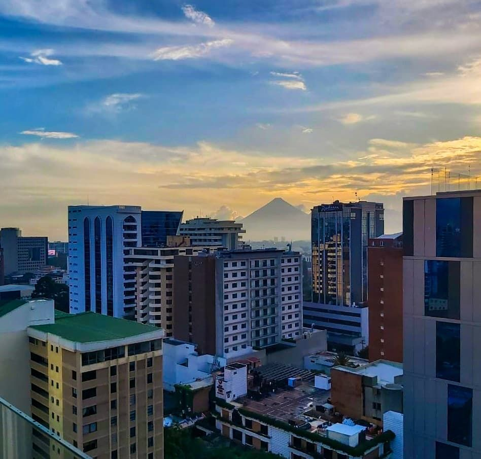 Urban Life at Guatemala City